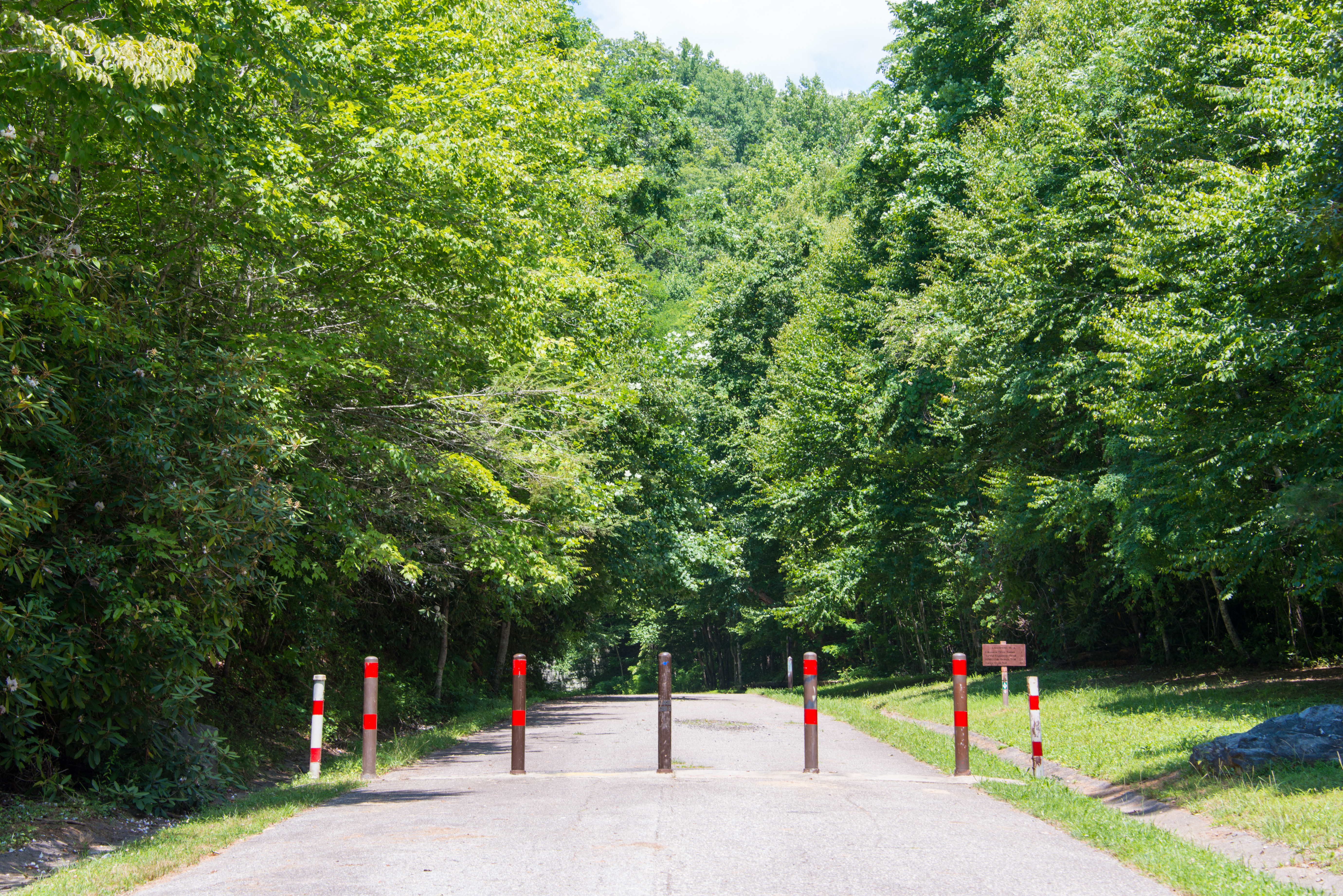 The poles signify the end of Lakeview Drive (east).